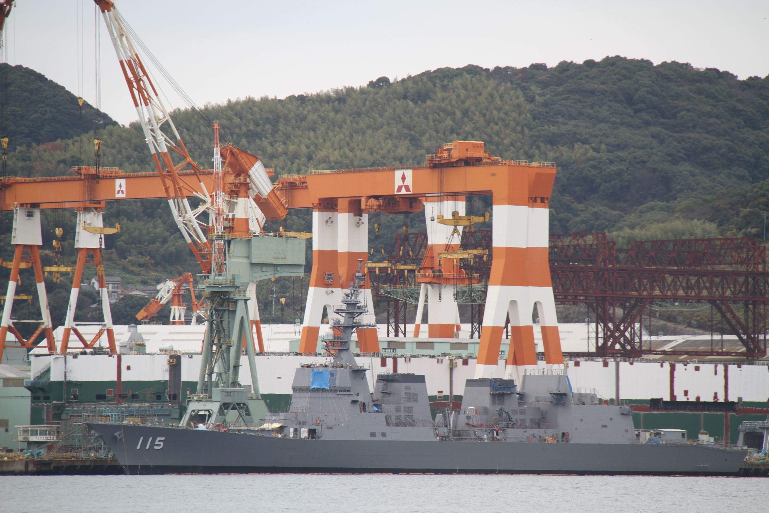 JS Akizuki (DD-115) being rigged at Mitsubishi Nagasaki Shipyard. Canon EOS 7D